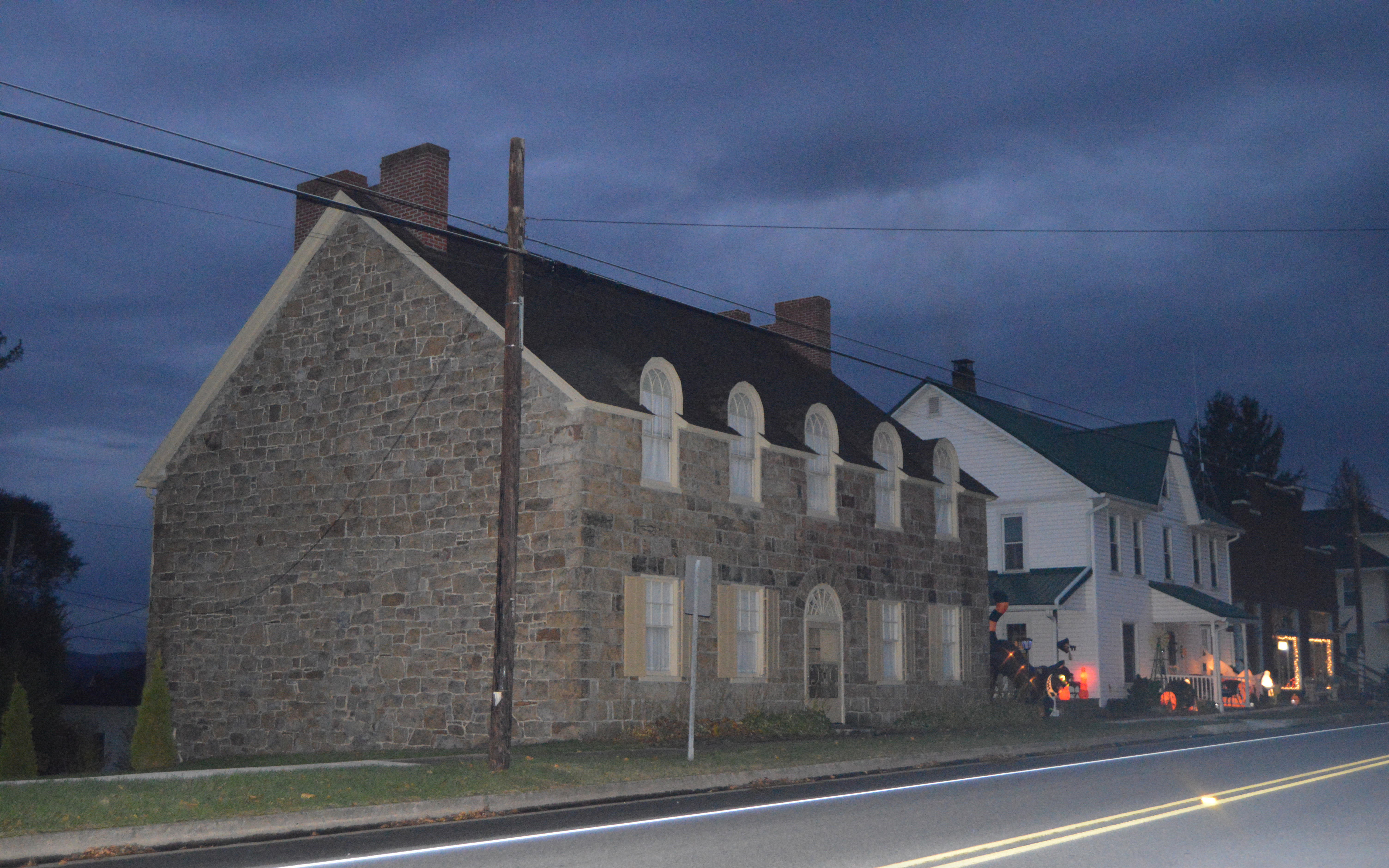 Houses on the southern side of E. Pitt Street (U.S. Route 30) in Schellsburg, Pennsylvania, United States. This block is part of the Schellsburg Historic District, a historic district that is listed on the National Register of Historic Places.